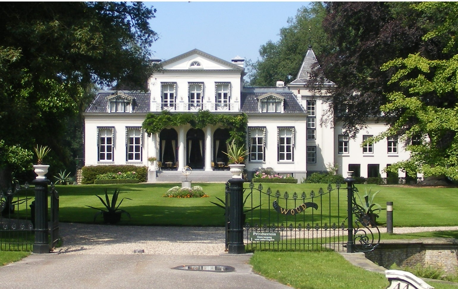 Castle/buitenhuis Oranjewoud at Oranjewoud